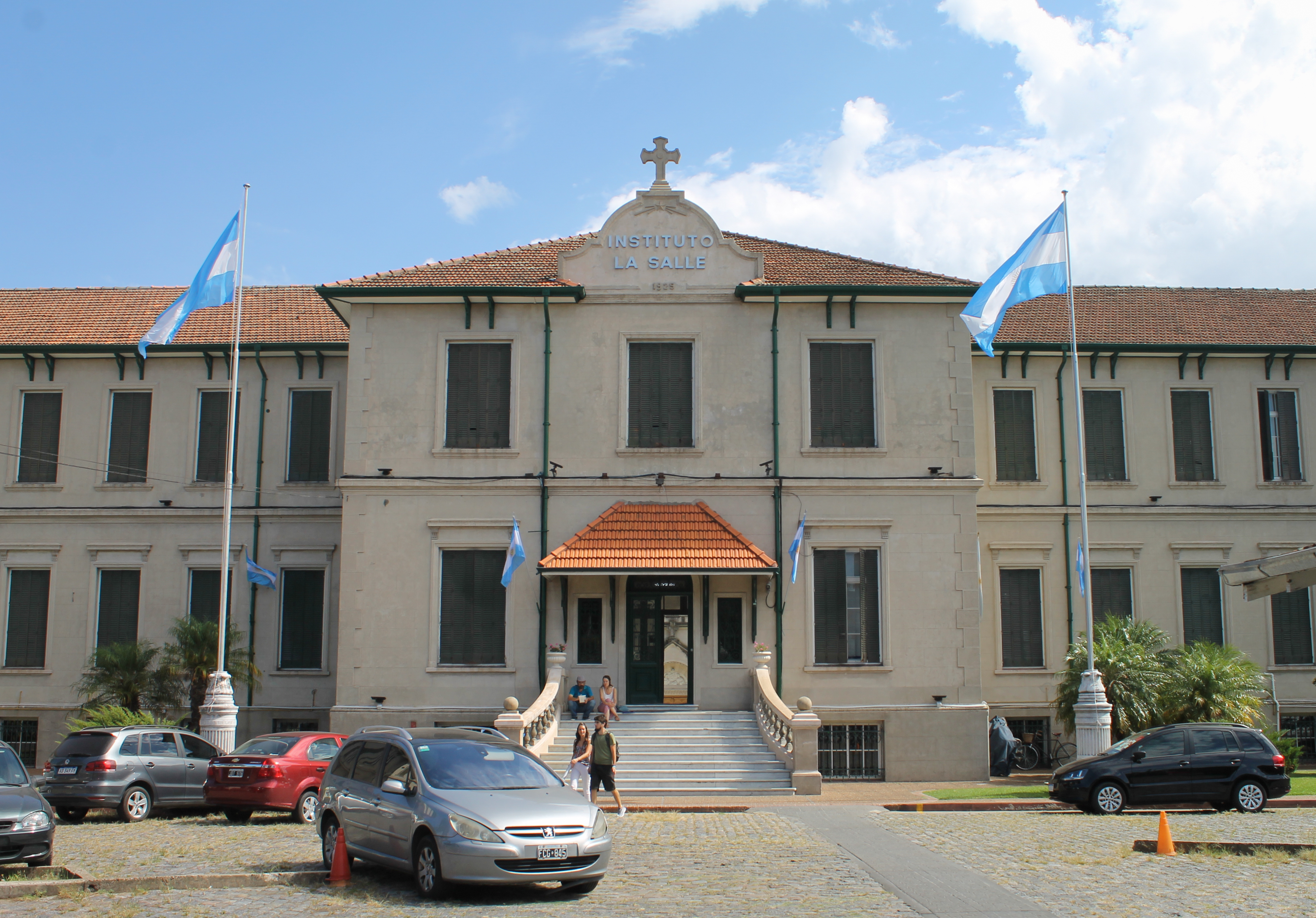 Lasalle school in Florida, Buenos Aires Province